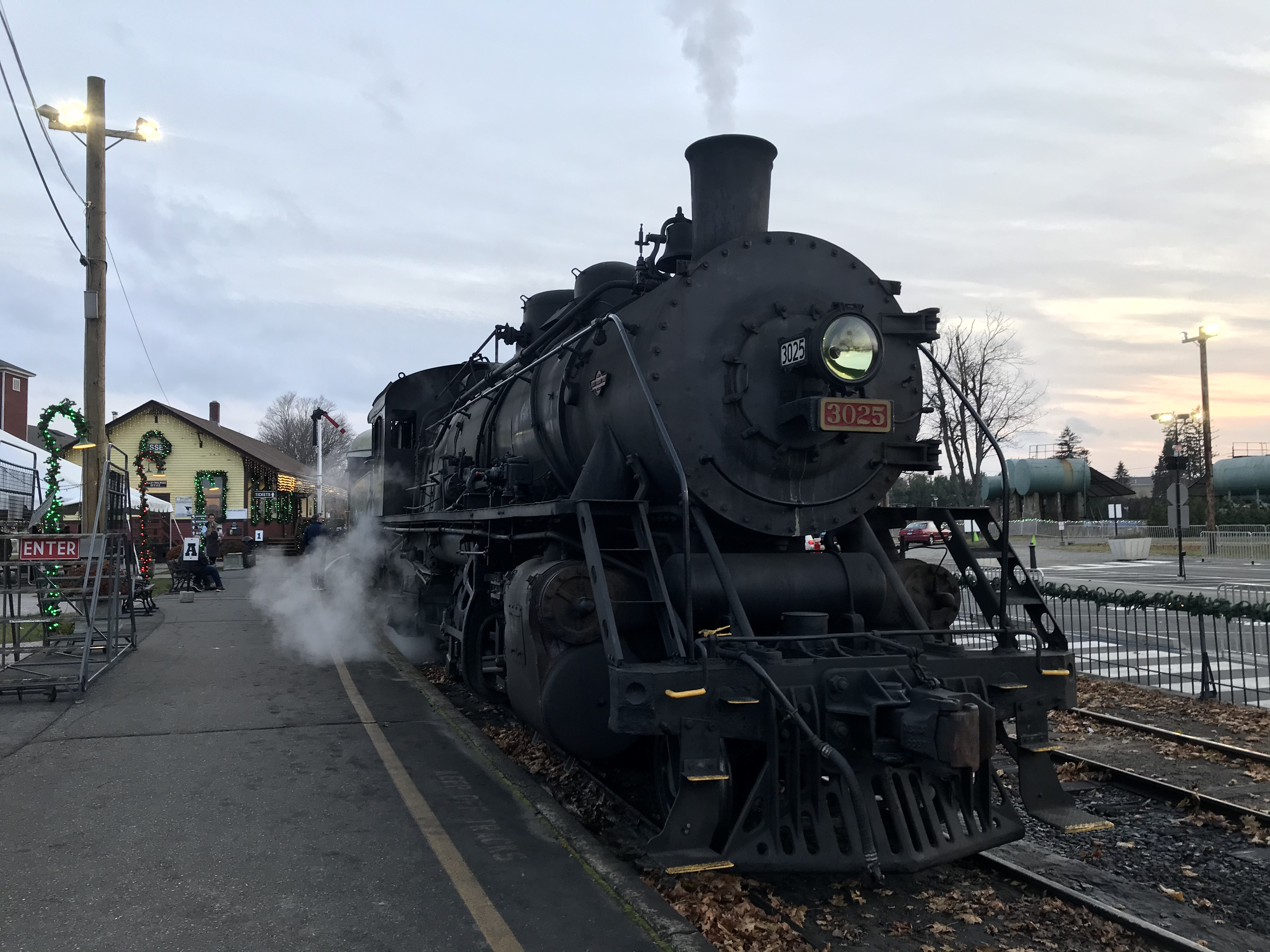 Valley Railroad #3025 at Essex in November 2019